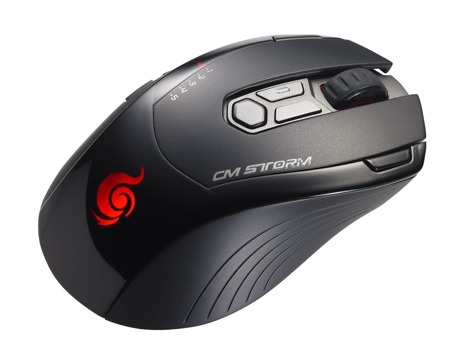 "Go faster, kill more." -- Jon Peddie, Jon Peddie Research Intel Free Press story: Holiday Gift Guide: Tech Experts' Top Picks. Cooler Master